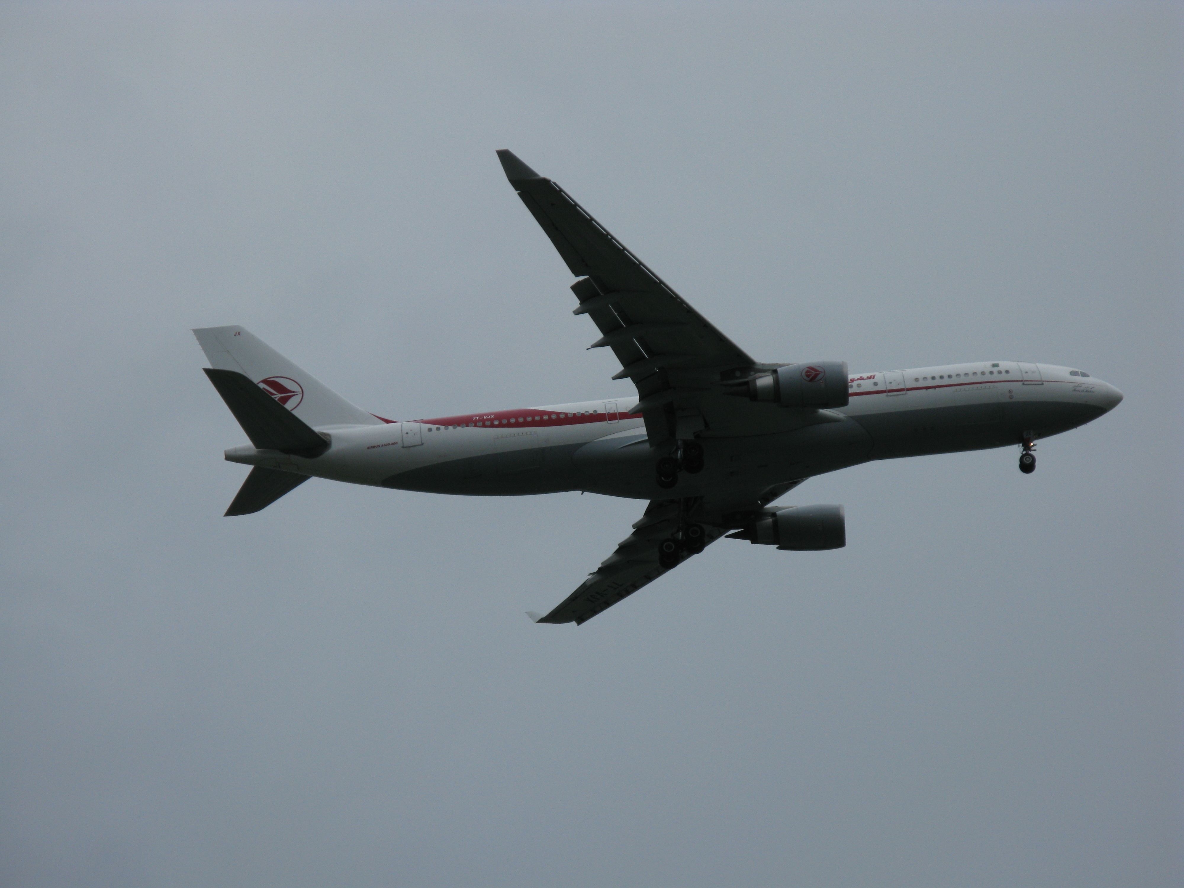 An Air Algérie Airbus A330-200 (civil registration : 7T-VJX) on final for runway 24R at Montréal-Trudeau International Airport (YUL/CYUL).